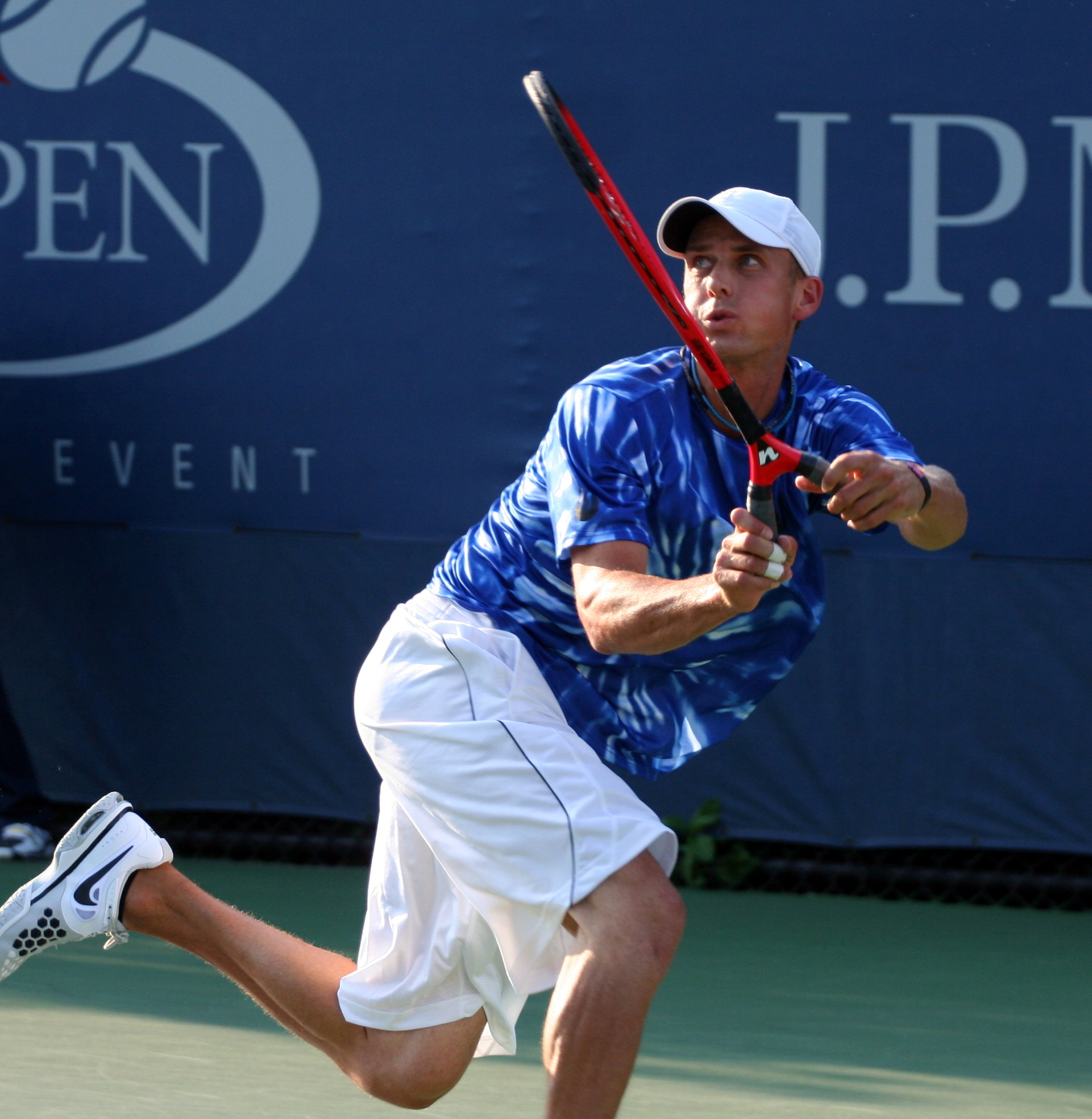 Brian Battistone at 2012 US Open Friday, Aug. 31, 2012